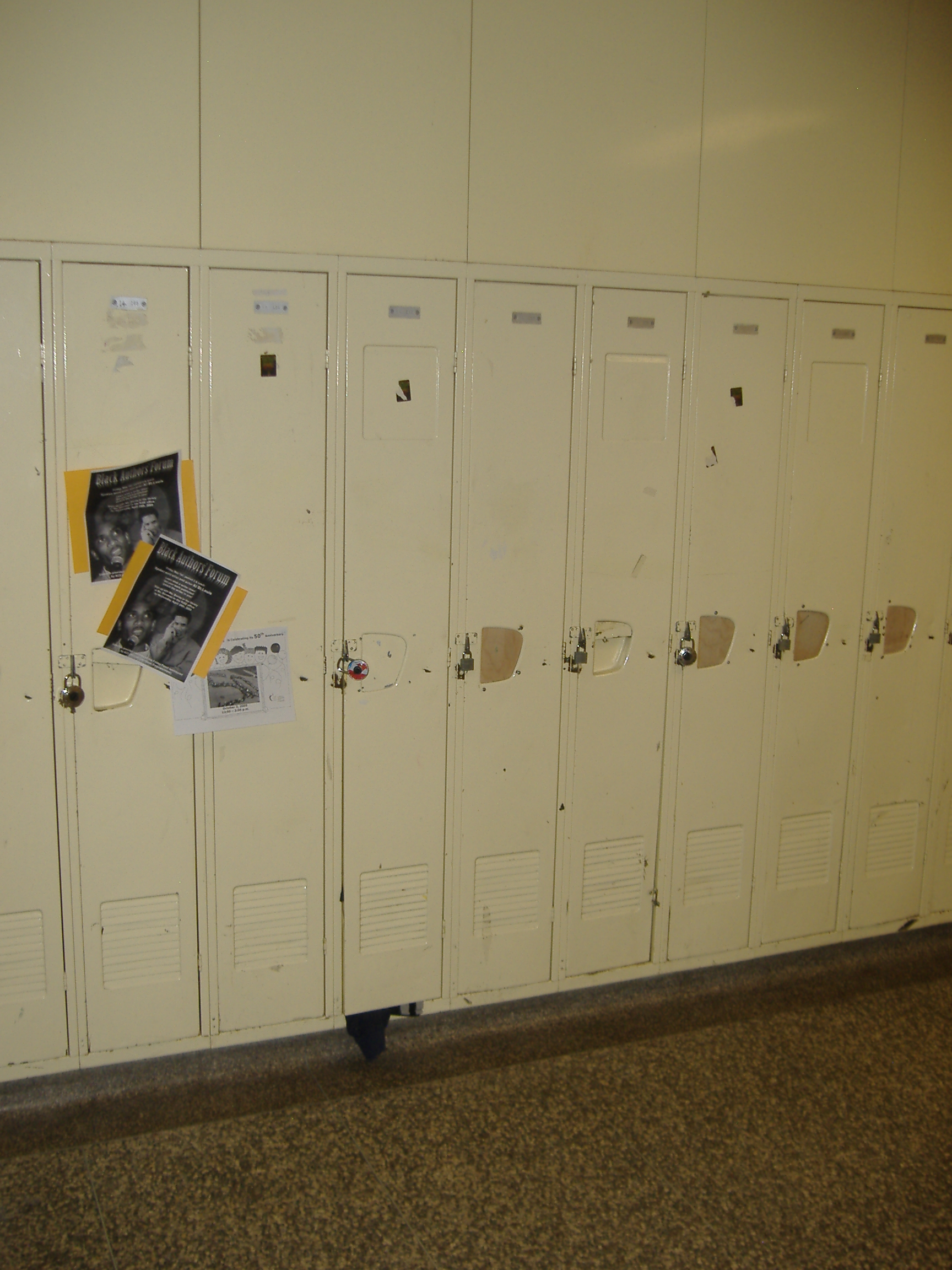 A photo of some of the lockers in the 140s Hallway at David and Mary Thomson Collegiate Institute.